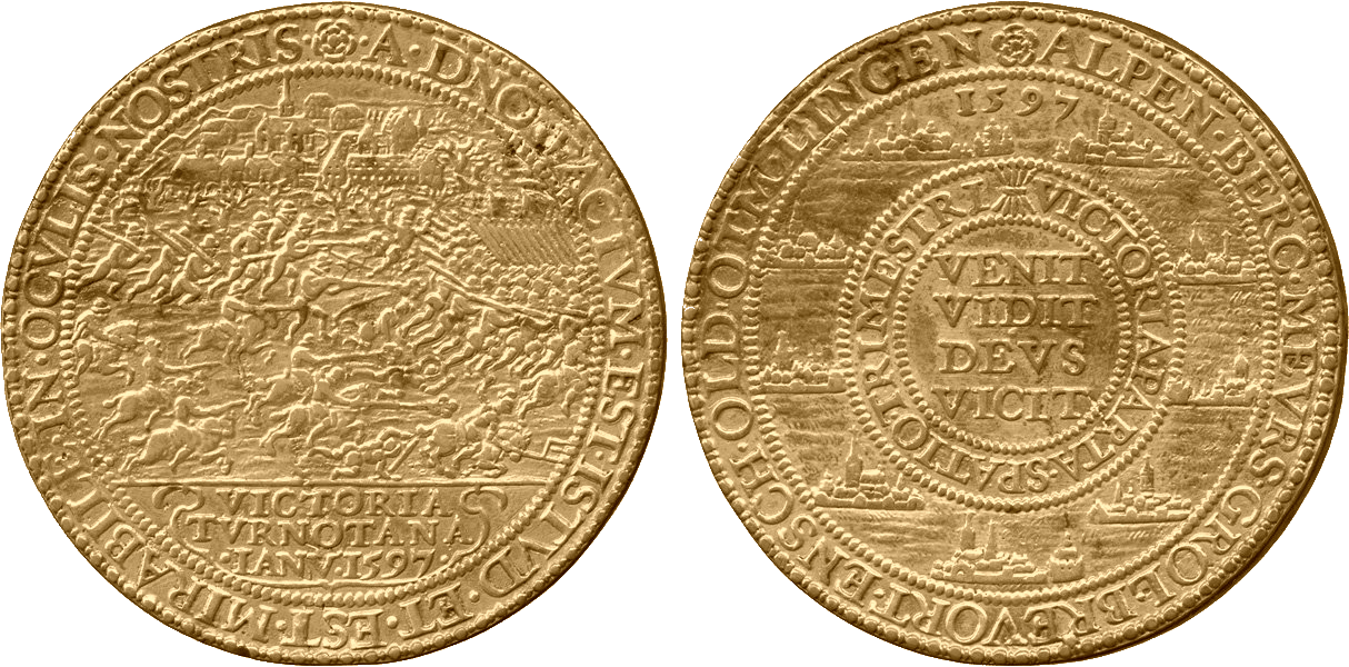 Victorie at Turnhout a.o. cities memorable coin